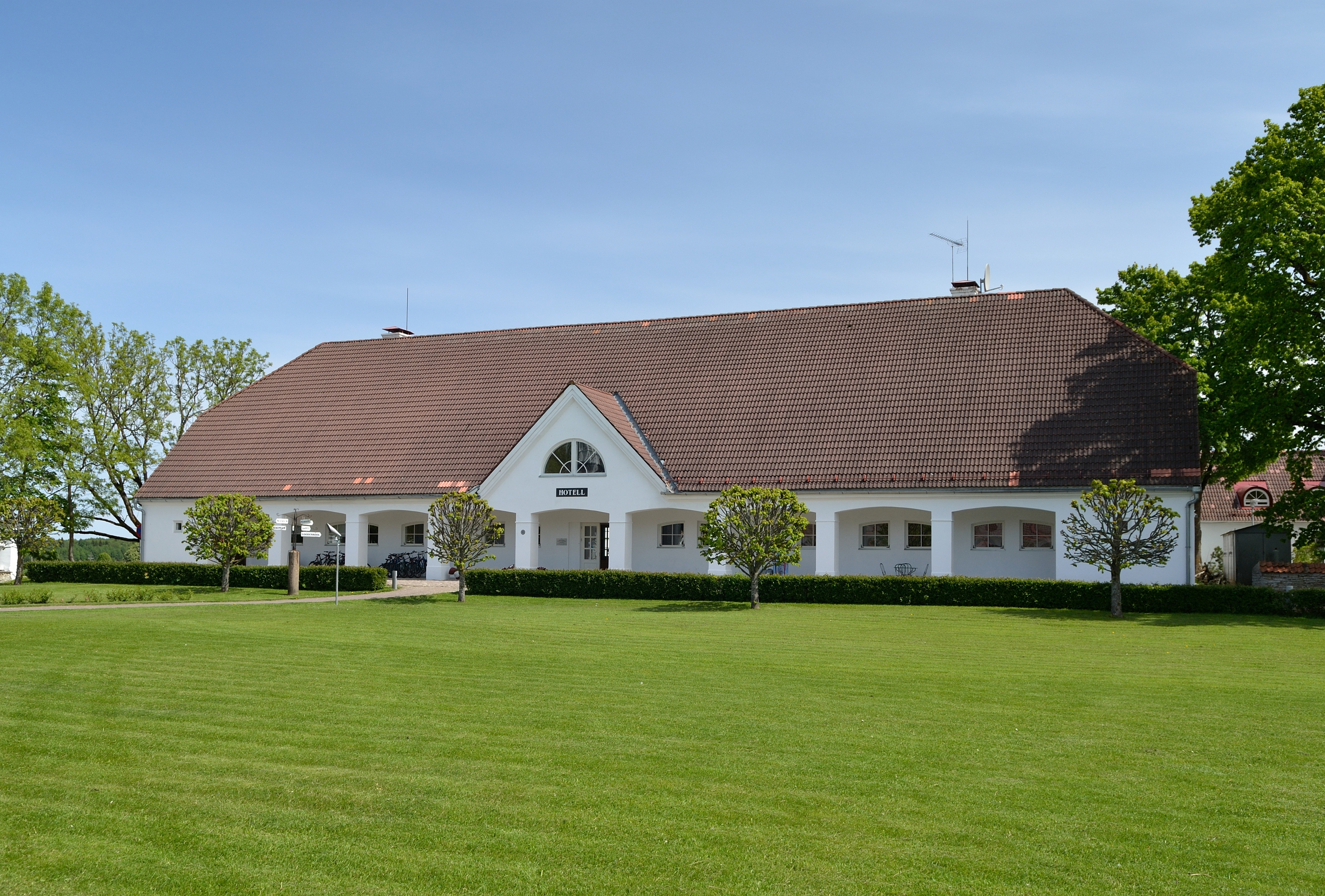 Sagadi manor coach house